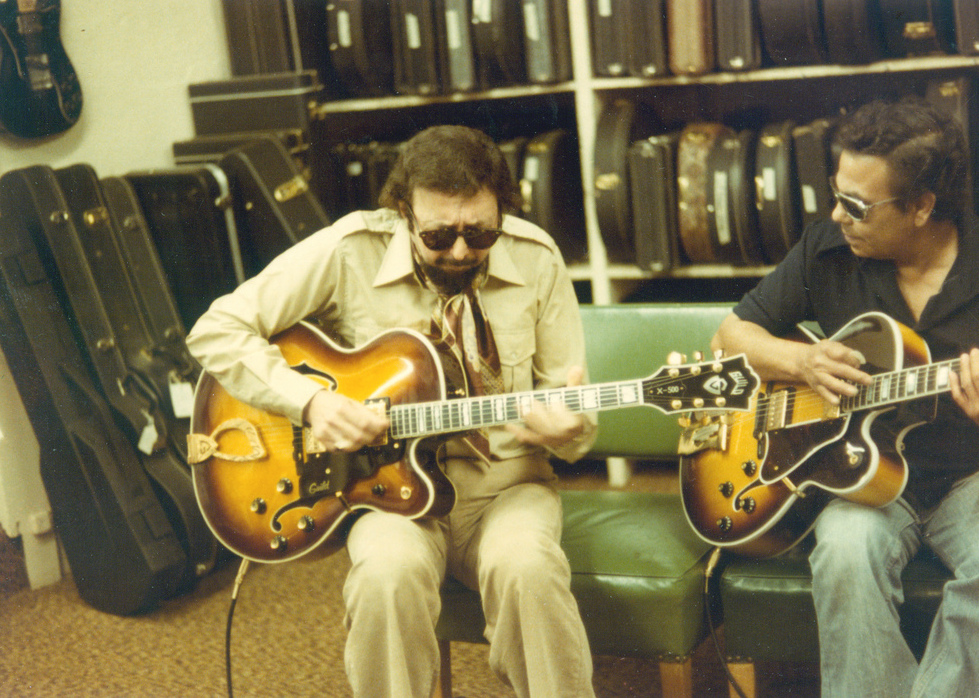 Barney Kessel - In the basement storage room of an east side music store in Wichita, Kansas, Barney Kessel demonstrates a new lick he is working on to a local musician. People were handing him various guitars to try out.